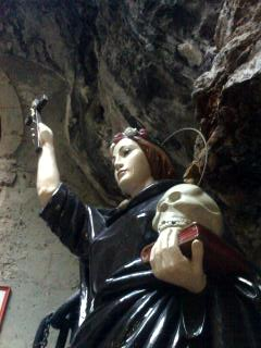 Santa Rosalia in Monte Pellegrino Sanctuary, Palermo